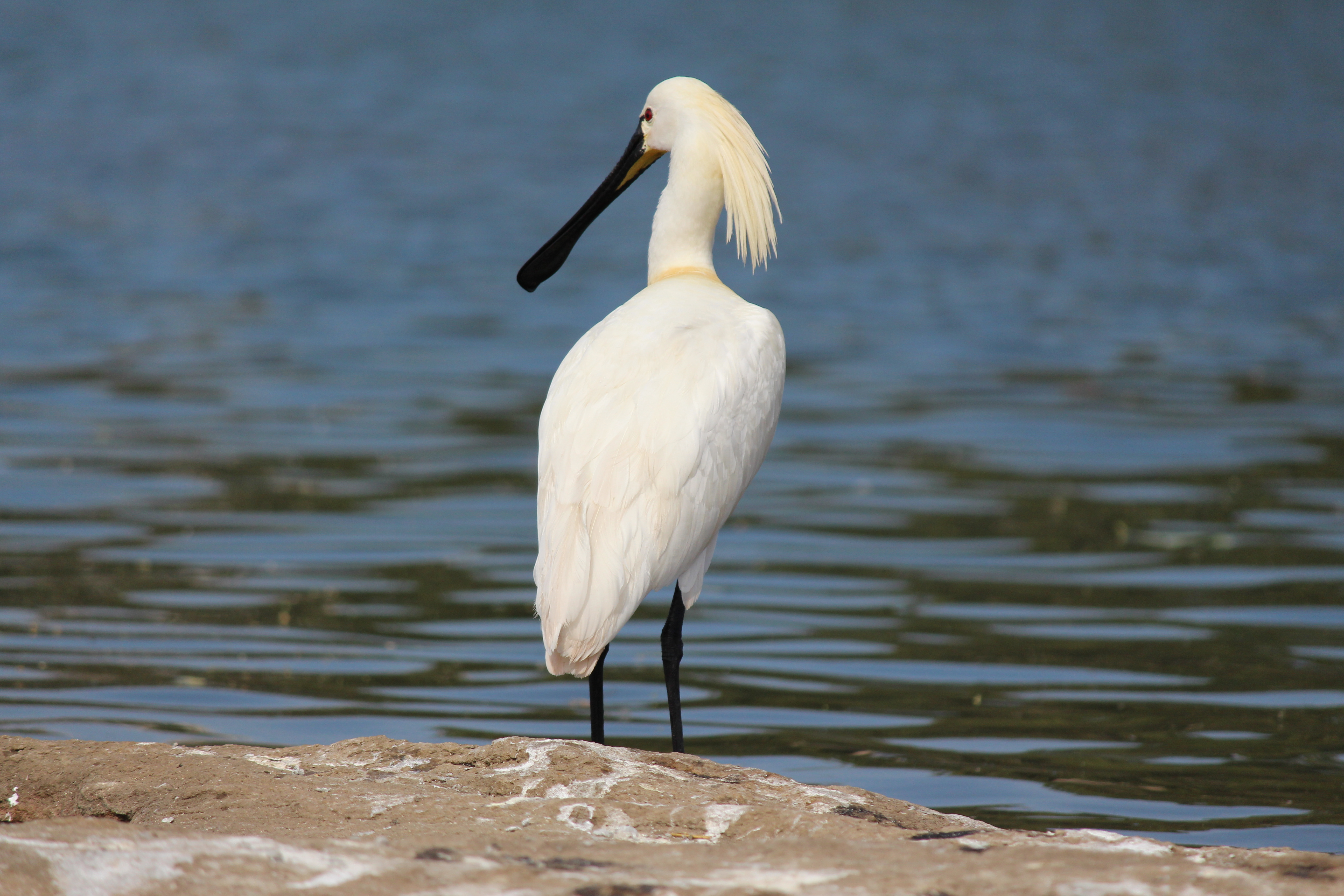 eurasian spoonbill,Ranganathittu Bird Sanctuary, Mandya District, Karnataka,india